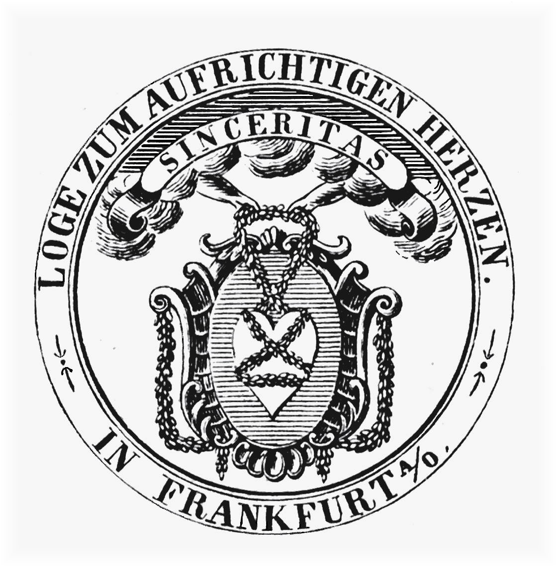 Seal of St. Johns Lodge Zum aufrichtigen Herzen, Frankfurt (Oder), Germany